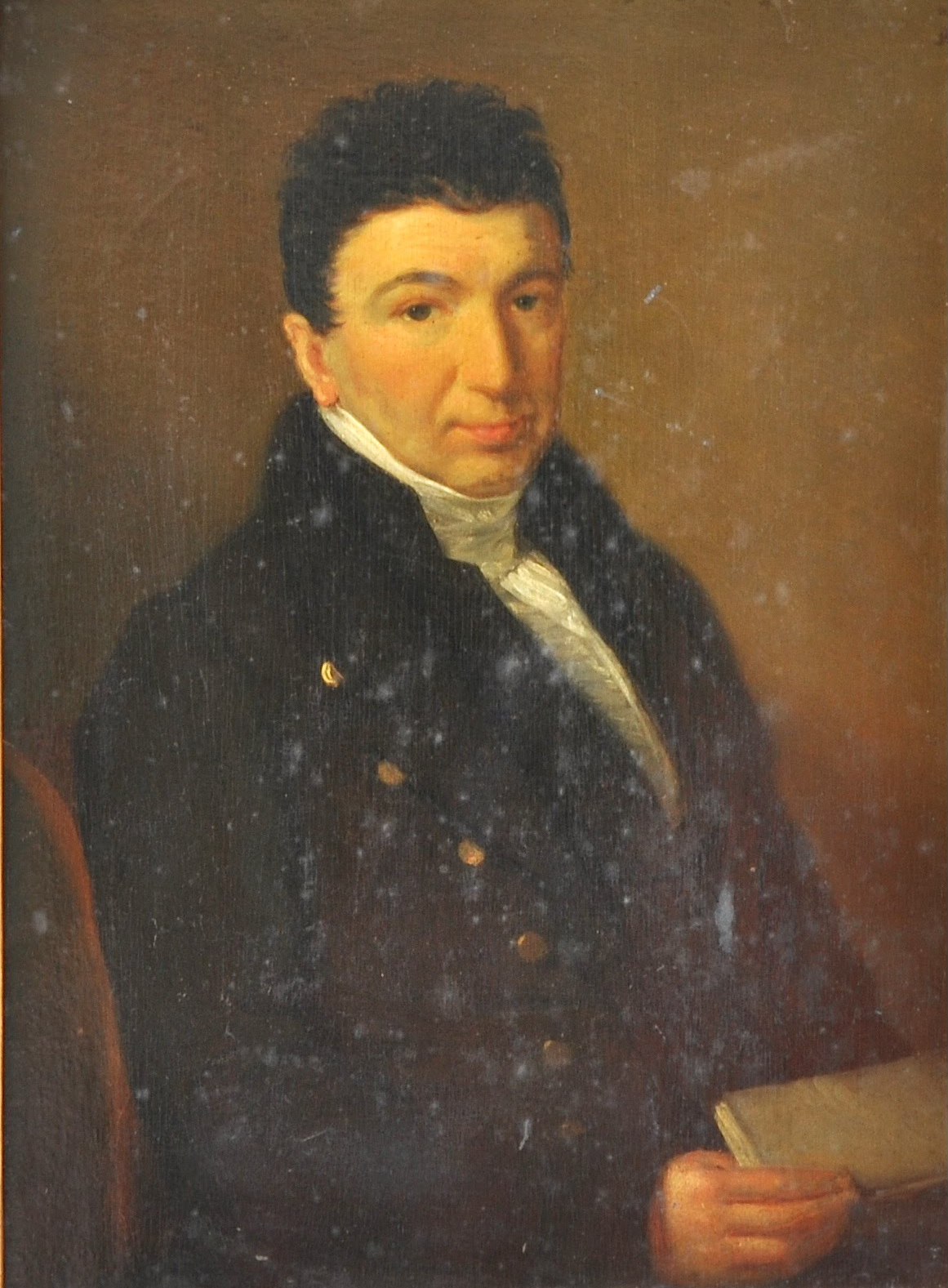 Joaquim Pedro Quintela, 1st Count of Farrobo (1801-1869)Título: Portrait of unknown LordOriginal Title: Retrato do Primeiro Conde de Farrobo